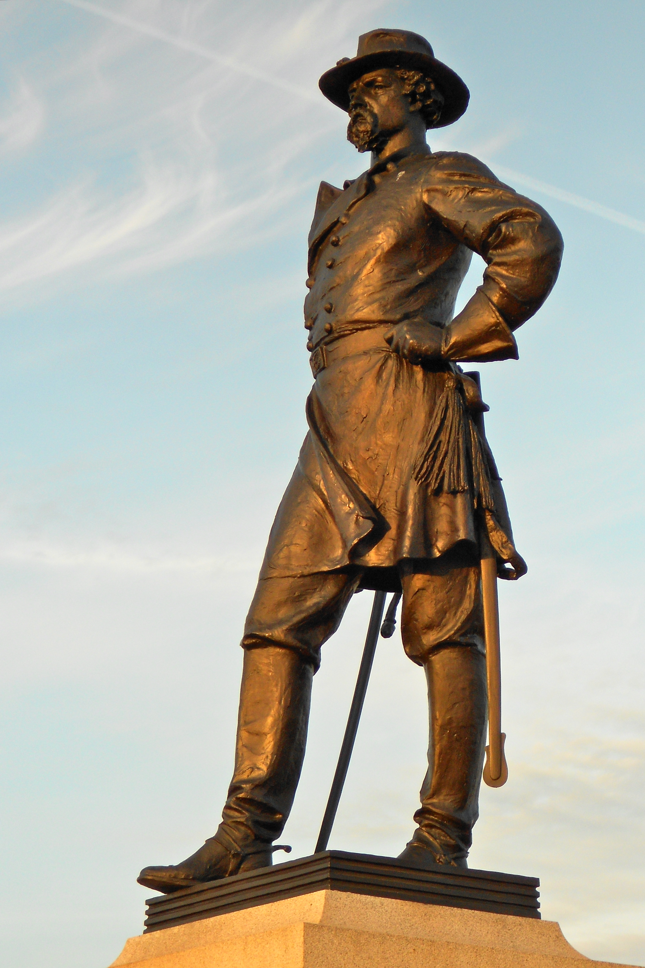 Monument on the Gettysburg (PA) battlefield to General Alexander Stewart Webb. J. Massey Rhind (1860–1936) Alternative namesJohn Massey Rhind, J. Massey RhindDescription American sculptor Date of birth/death9 July 18601936Location of birth/deathEdinburgh, ScotlandNew York CityWork locationU.S.Authority control VIAF: 73411145 ULAN: 500060779 LCCN: no90003481 WorldCat